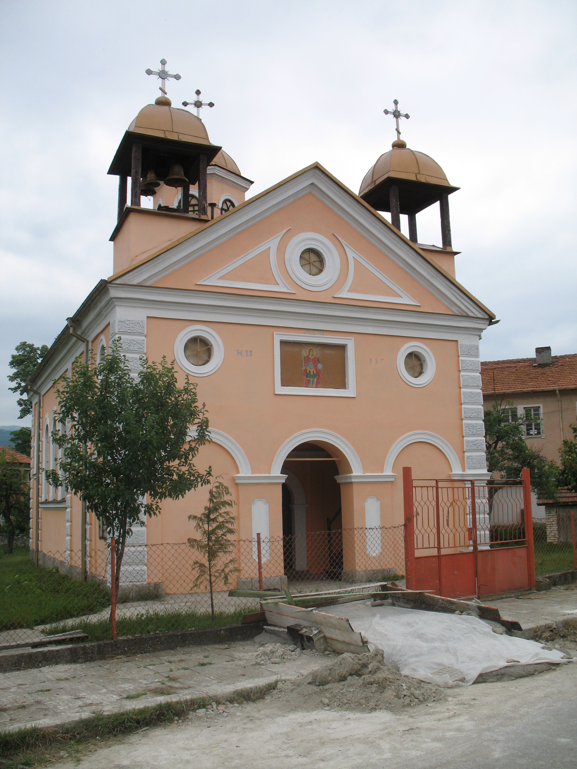 Church of Saint Michael Archangel, village of Shishkovtsi, Bulgaria